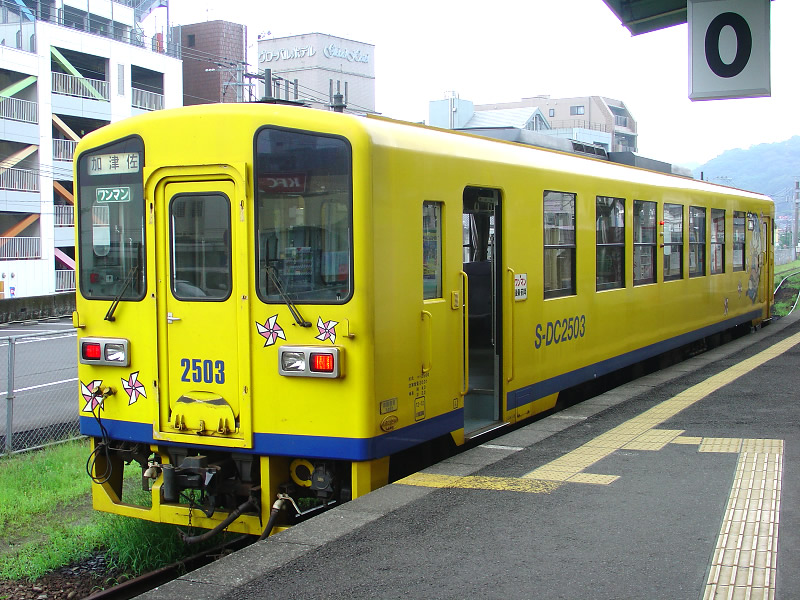 Shimatetsu Kiha 2500 Series train.